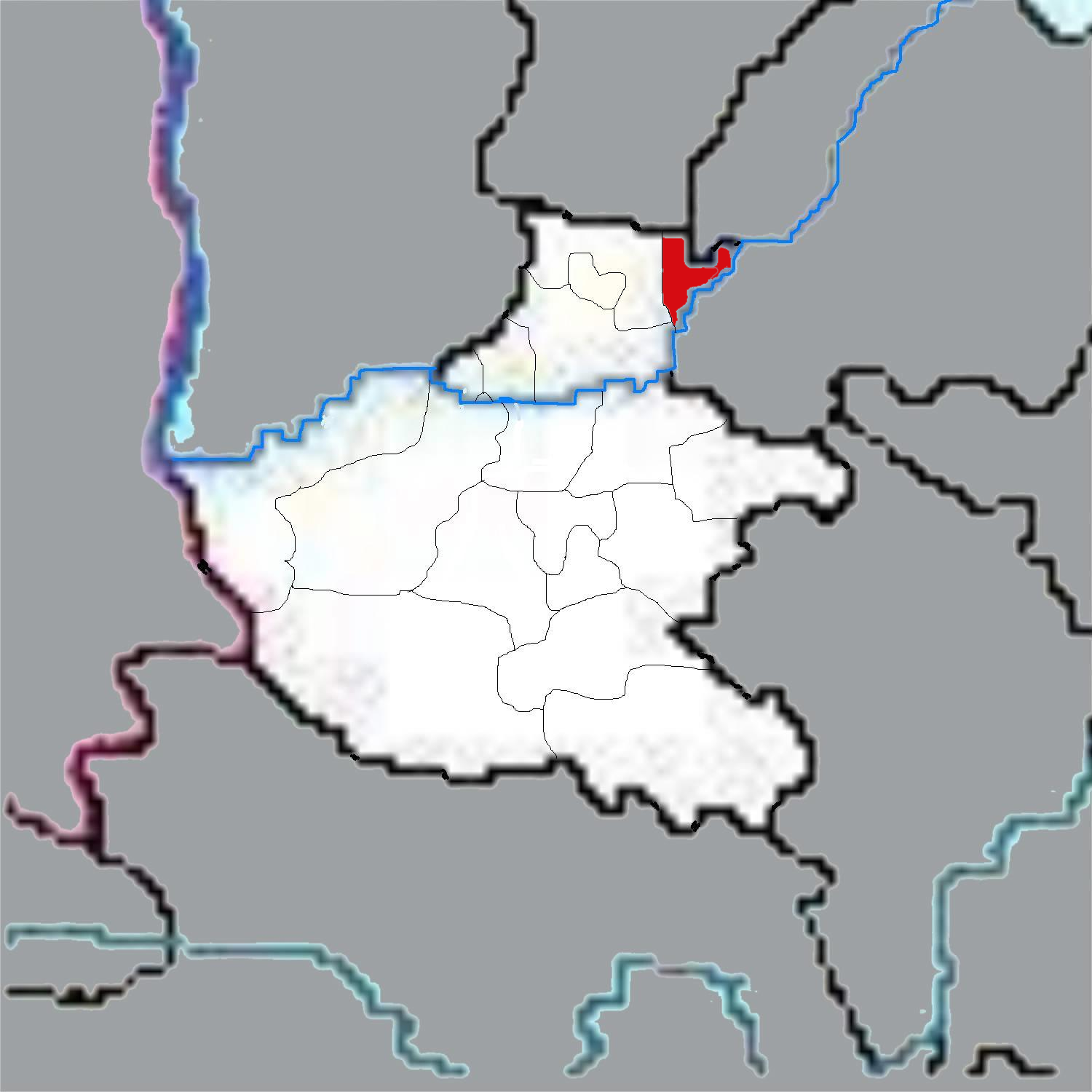 Maps of Henan Province of China